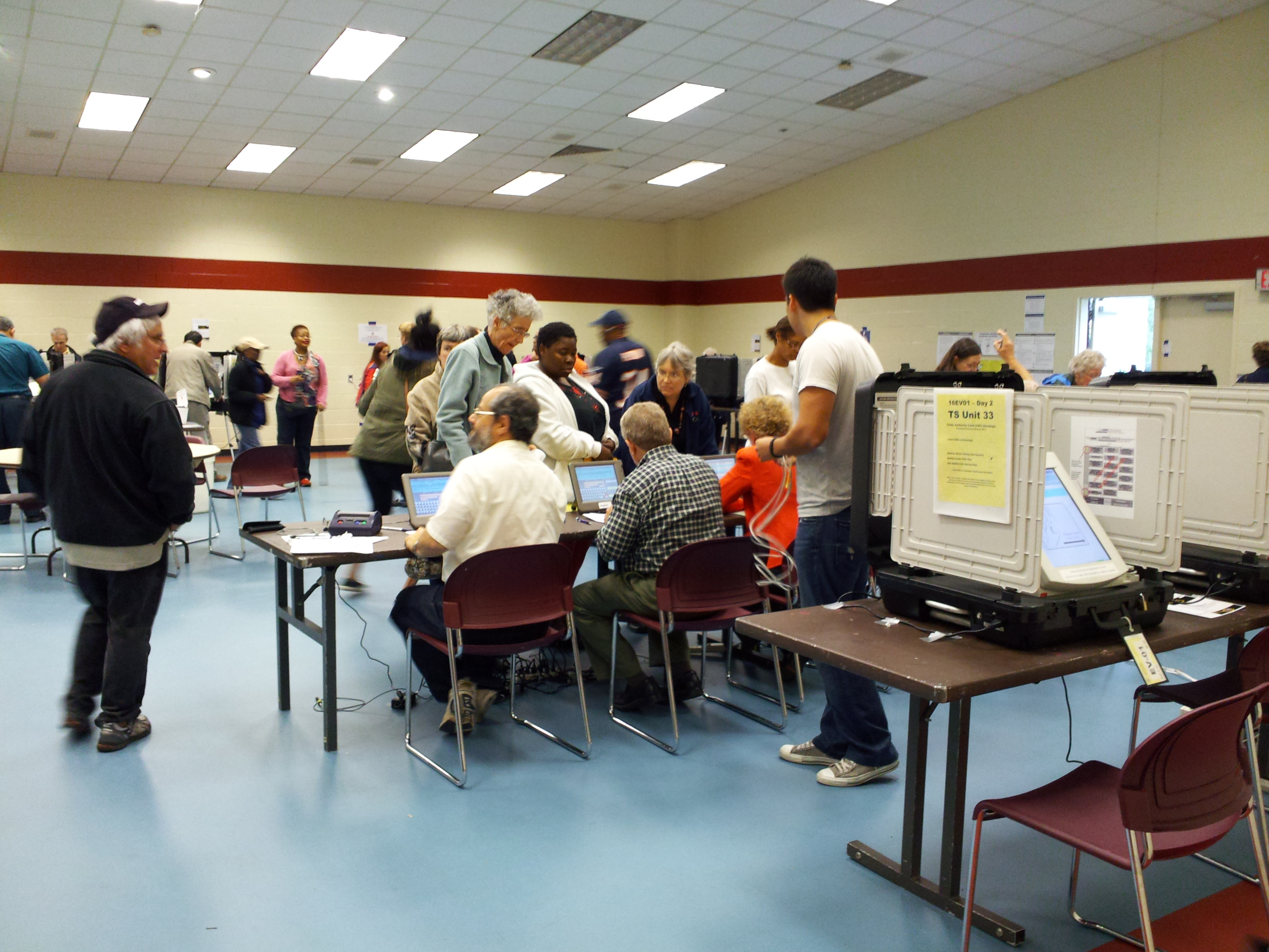 Early voting center at Bauer Drive Community Recreation Center in Rockville, Maryland.